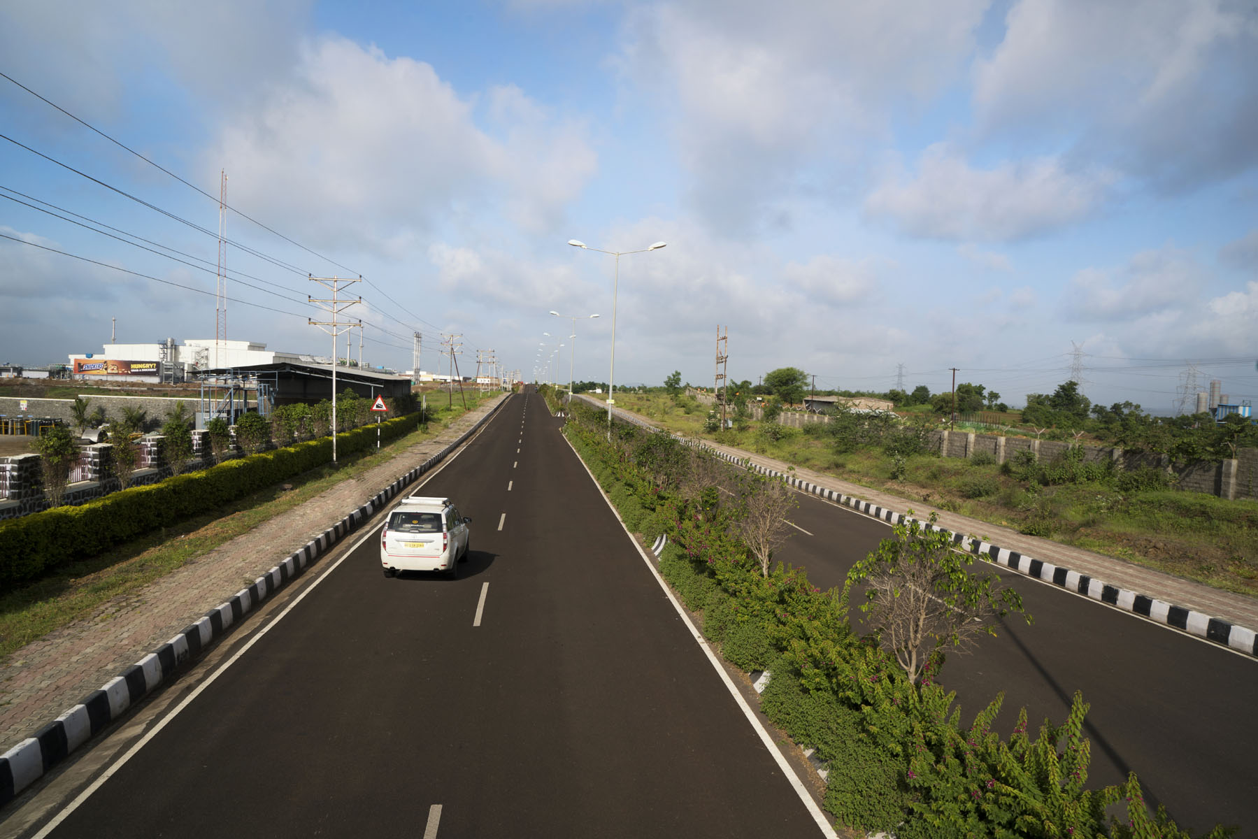 Fast route to Mumbai and Nashik